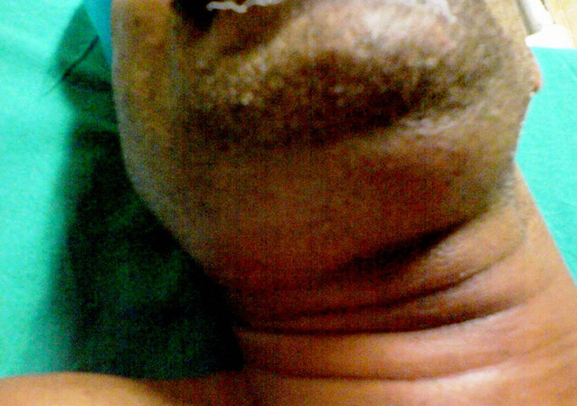 Swelling in the submandibular area in a patient with Ludwig's angina. This made it difficult for the assessment of neck extension.